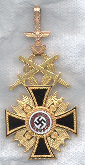 German Order of NSDAP (awarded 1942-1945).